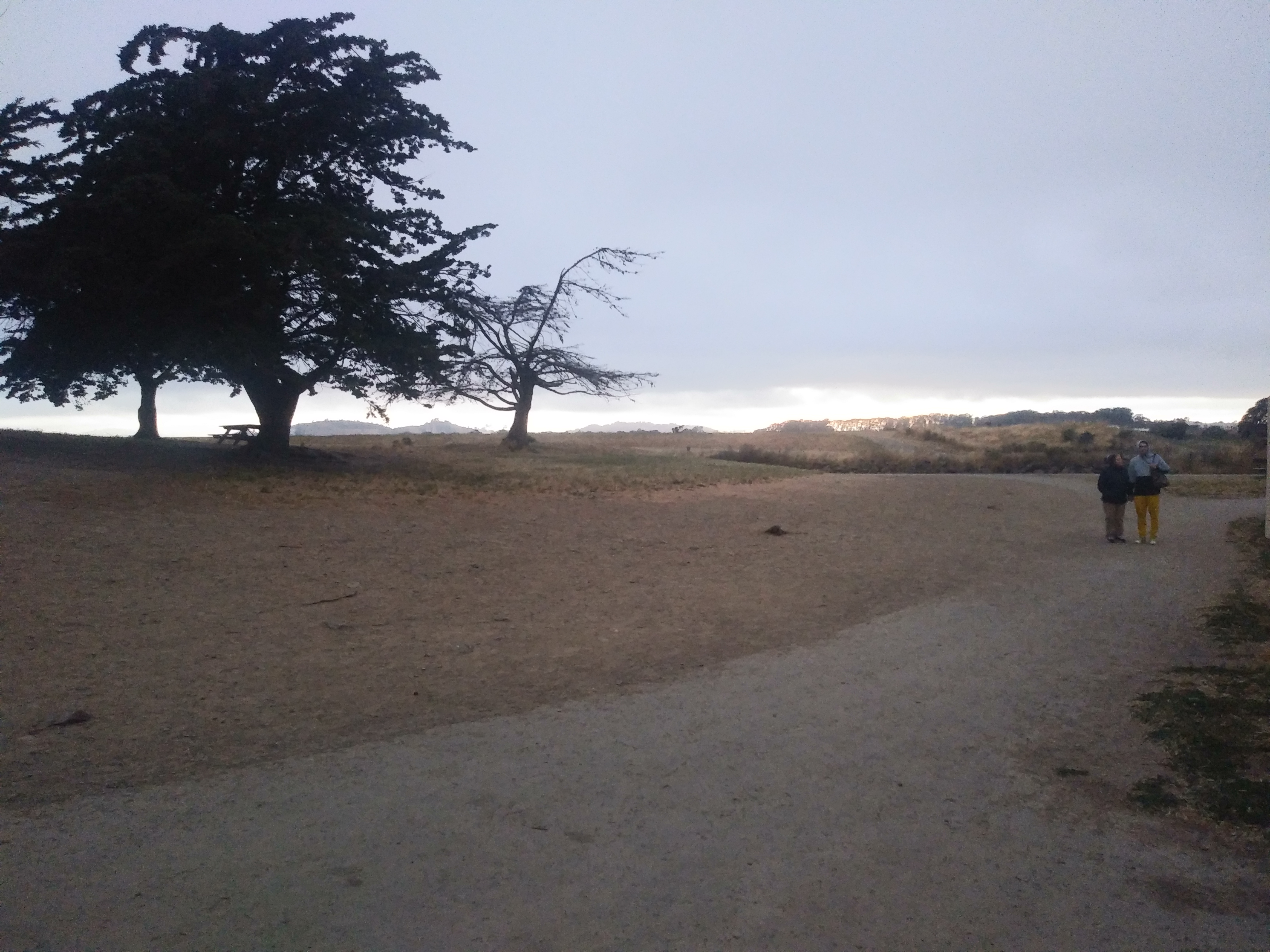 Point Isabel Regional Shoreline entrance in 2019